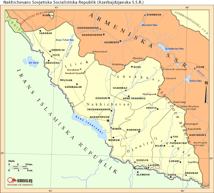 Swedish map over Nakhichevan SSR